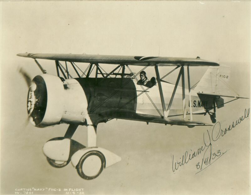 Photograph of a Curtiss F11C-2 single seat fighter in flight.